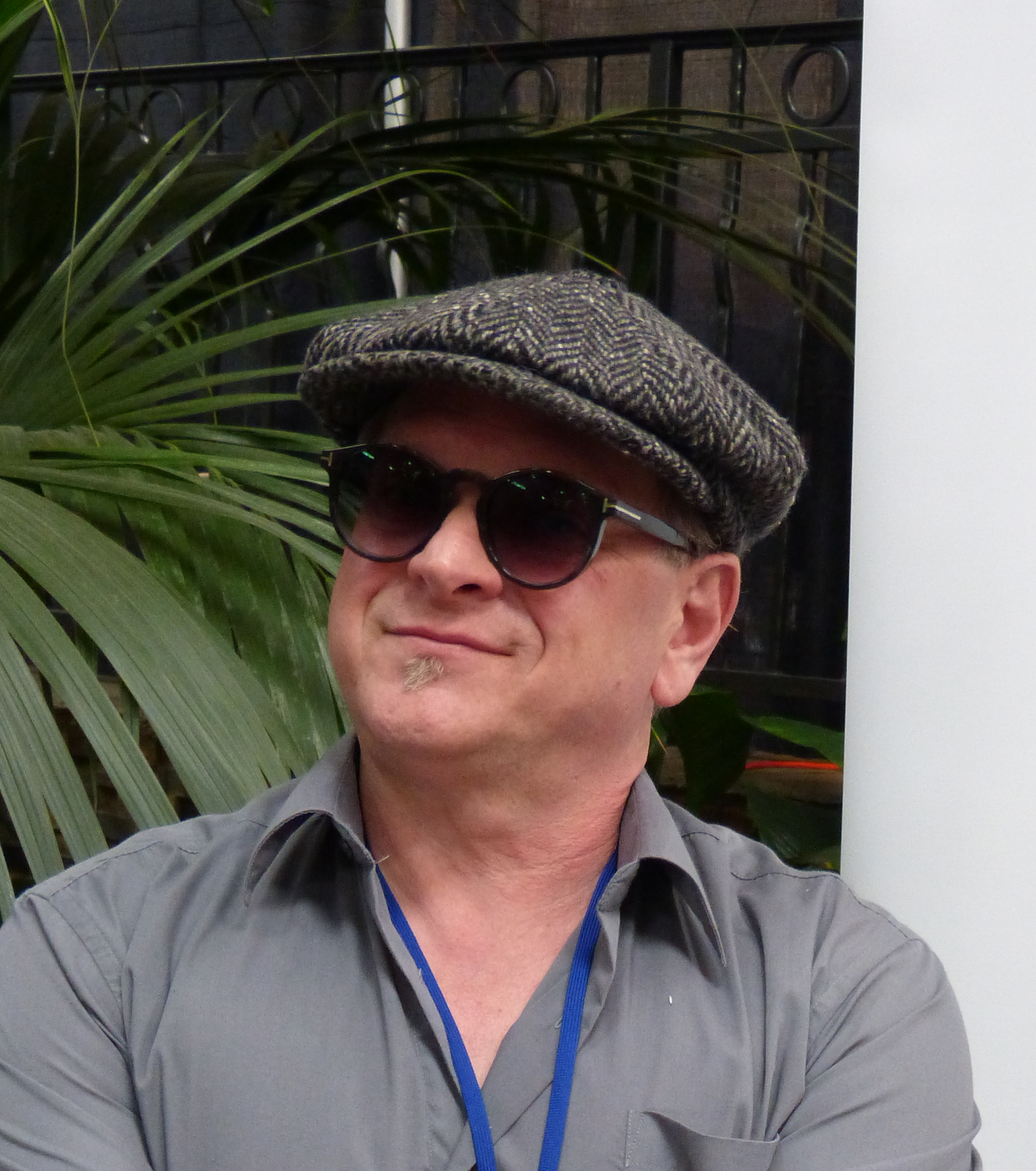 A photo of Mark Bodé.